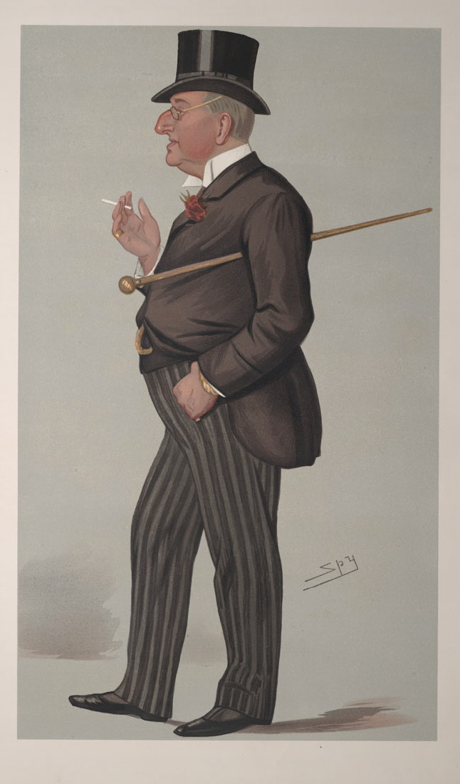 Caricature of Mr Alexander Meyrick Broadley (1847-1916). Caption read "He defended Arabi".